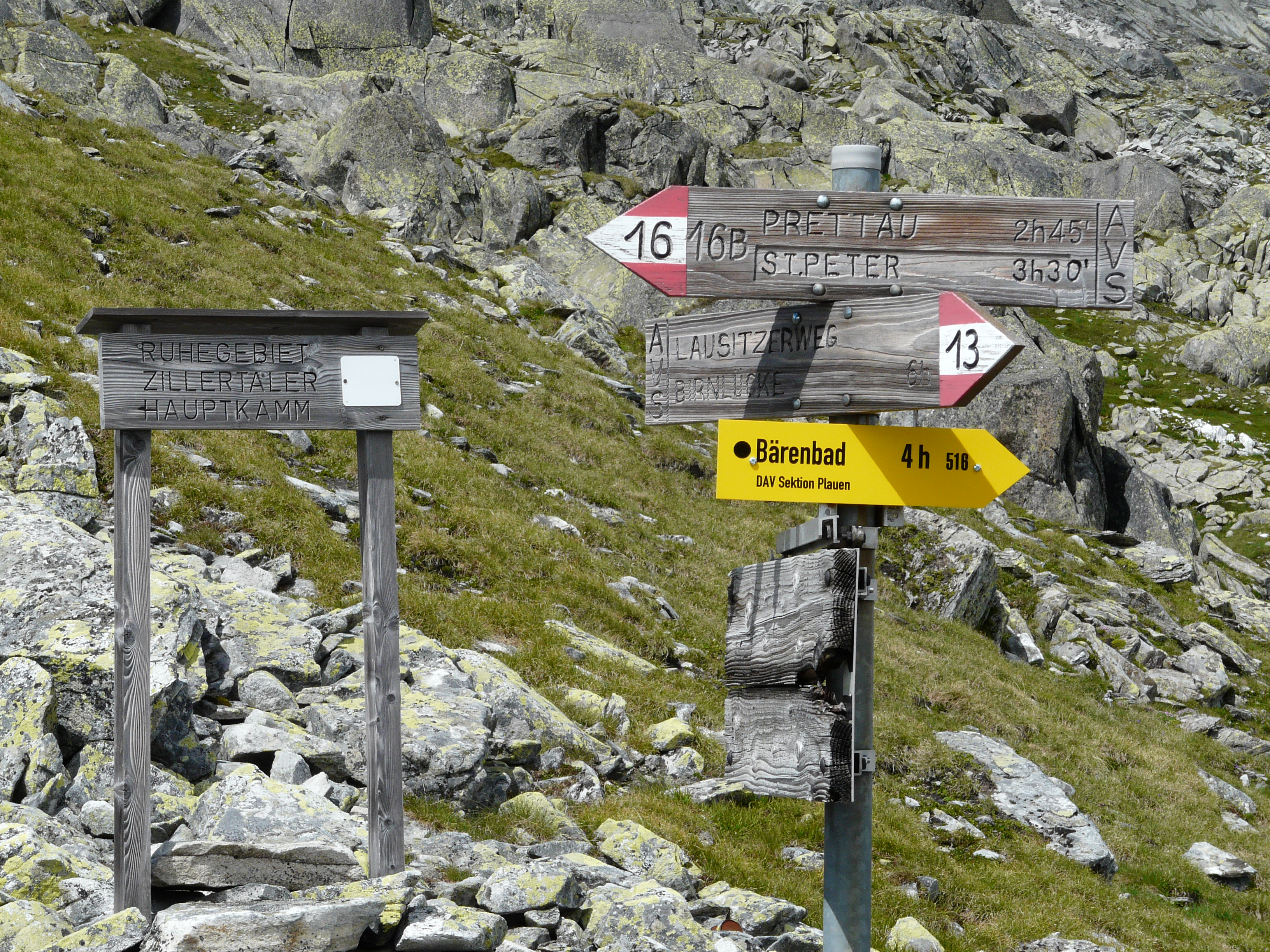 Hundskehljoch